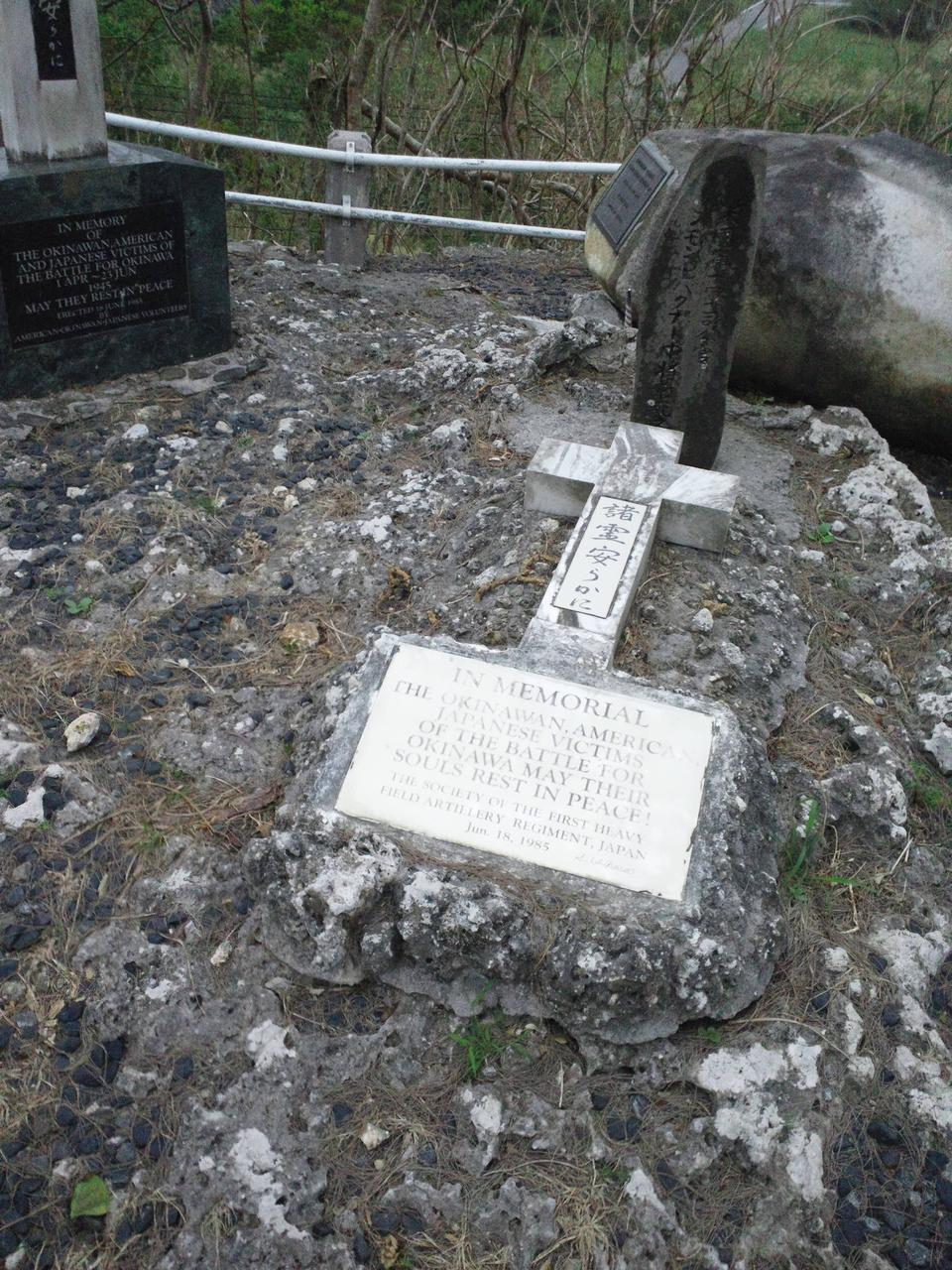 Memorial monument of Lieutenant General Simon B. Buckner on his KIA place in Okinawa.